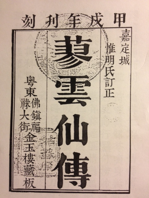 Cover of Luc-Van-Tien truyen (1874)